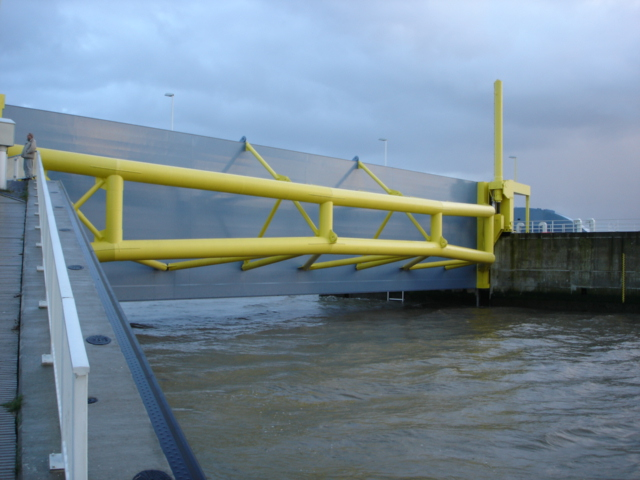 Ems Barrier, main gate, River Ems, located near the town Gandersum, Lower Saxony, Germany, North Sea